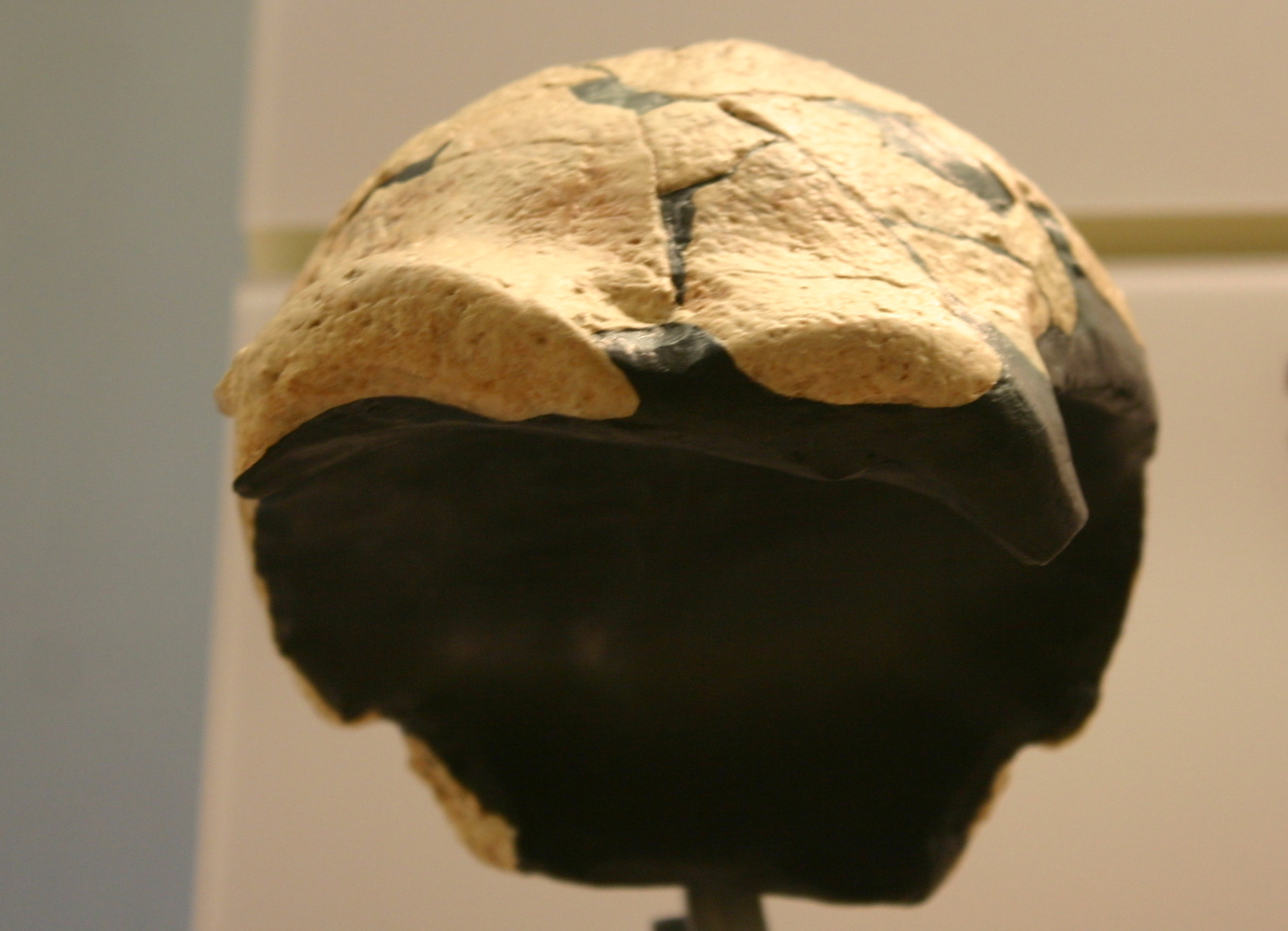 Taken at the David H. Koch Hall of Human Origins at the Smithsonian Natural History Museum.